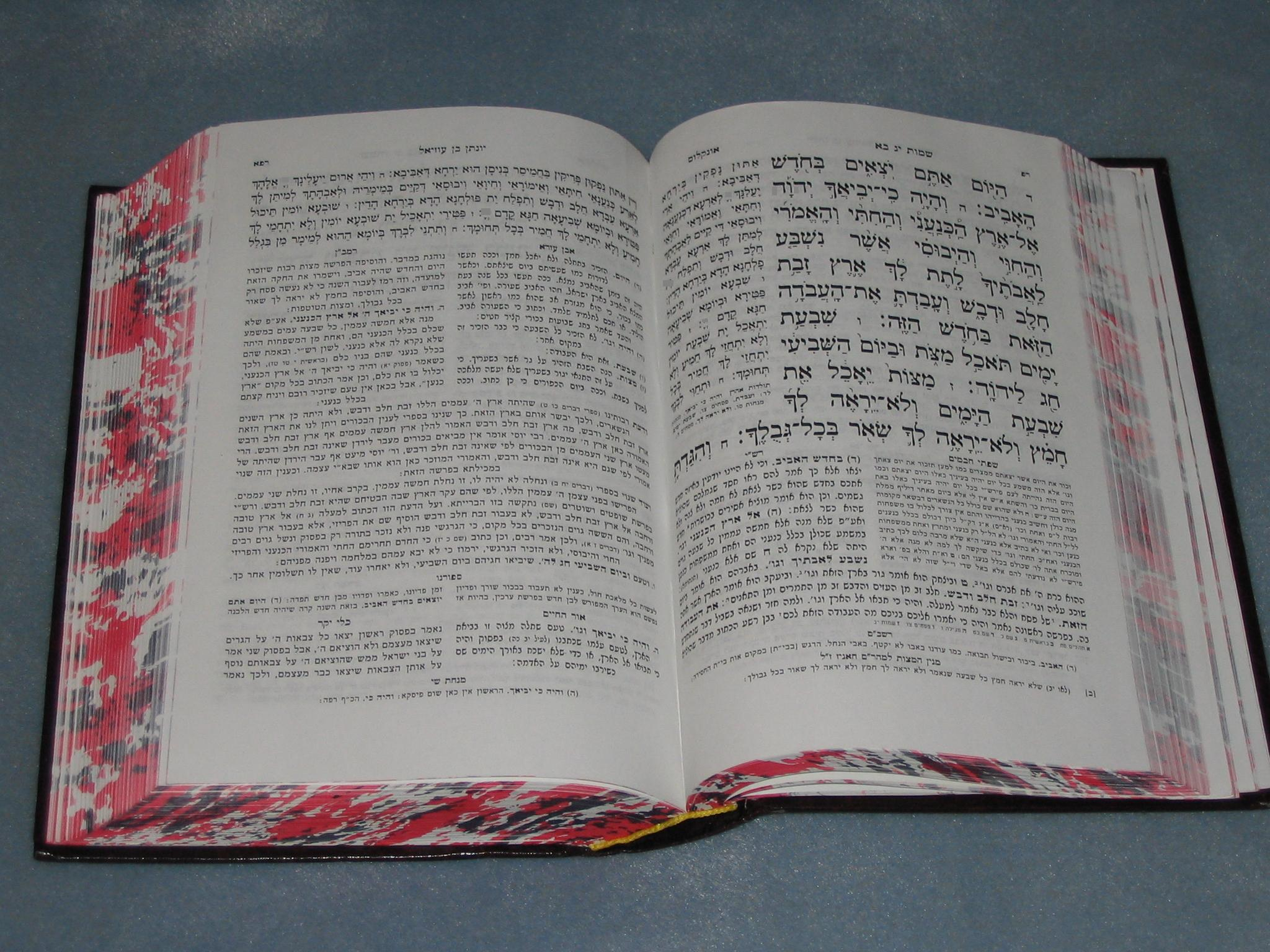 This is an image that I took of a page from a Mikraot Gedolot. The specific page is Shemot/Exodus 13:4-8. I chose this page randomly. This image is being added in response to a request on.